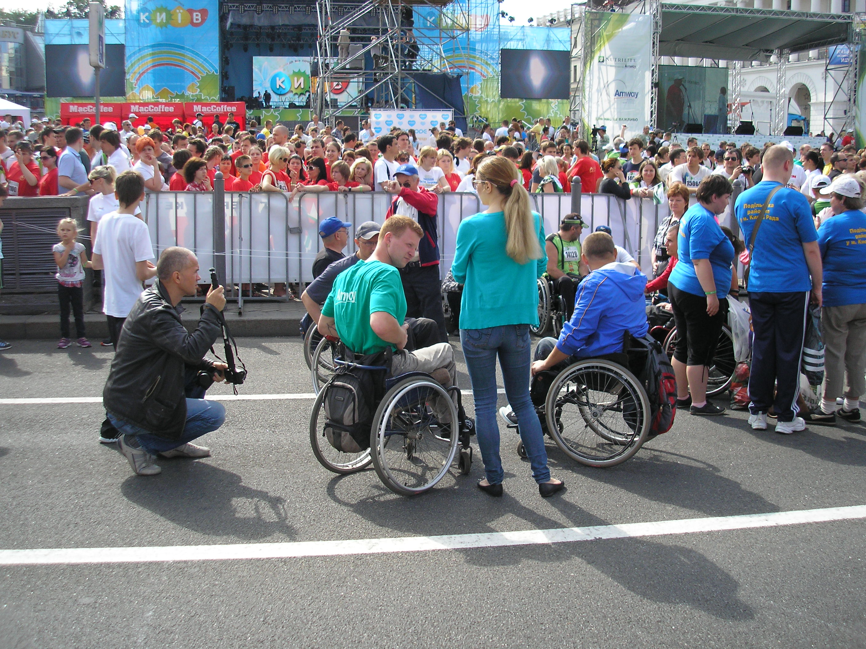 Kyiv Chestnut Run 2013